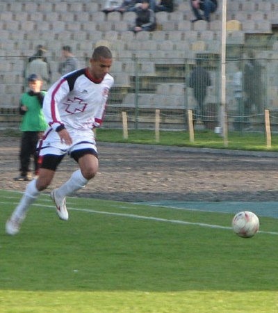 Ramón Lopes de Freitas, midfielder of FC Volyn Lutsk